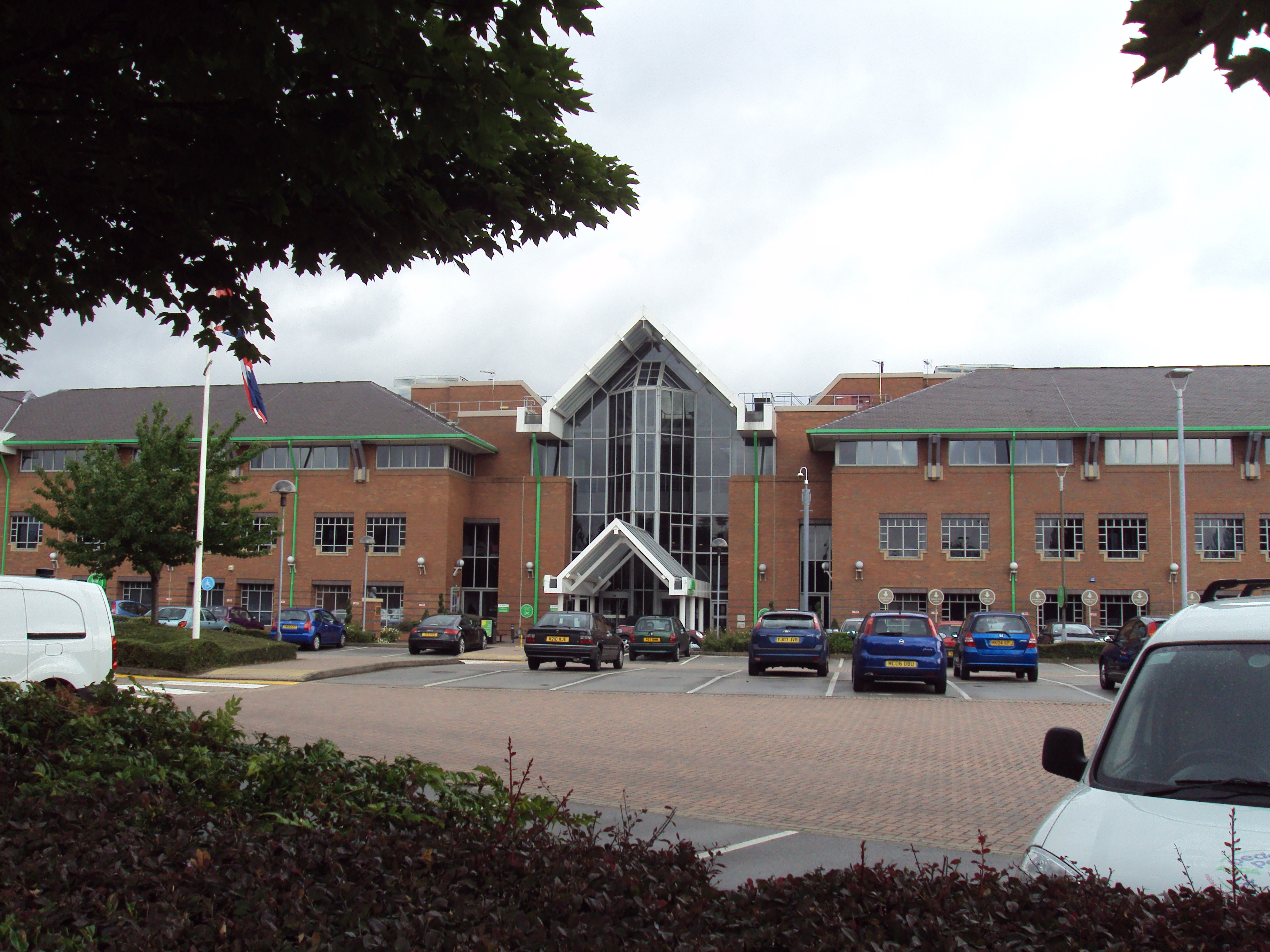 Asda House, Great Wilson Street, Leeds.